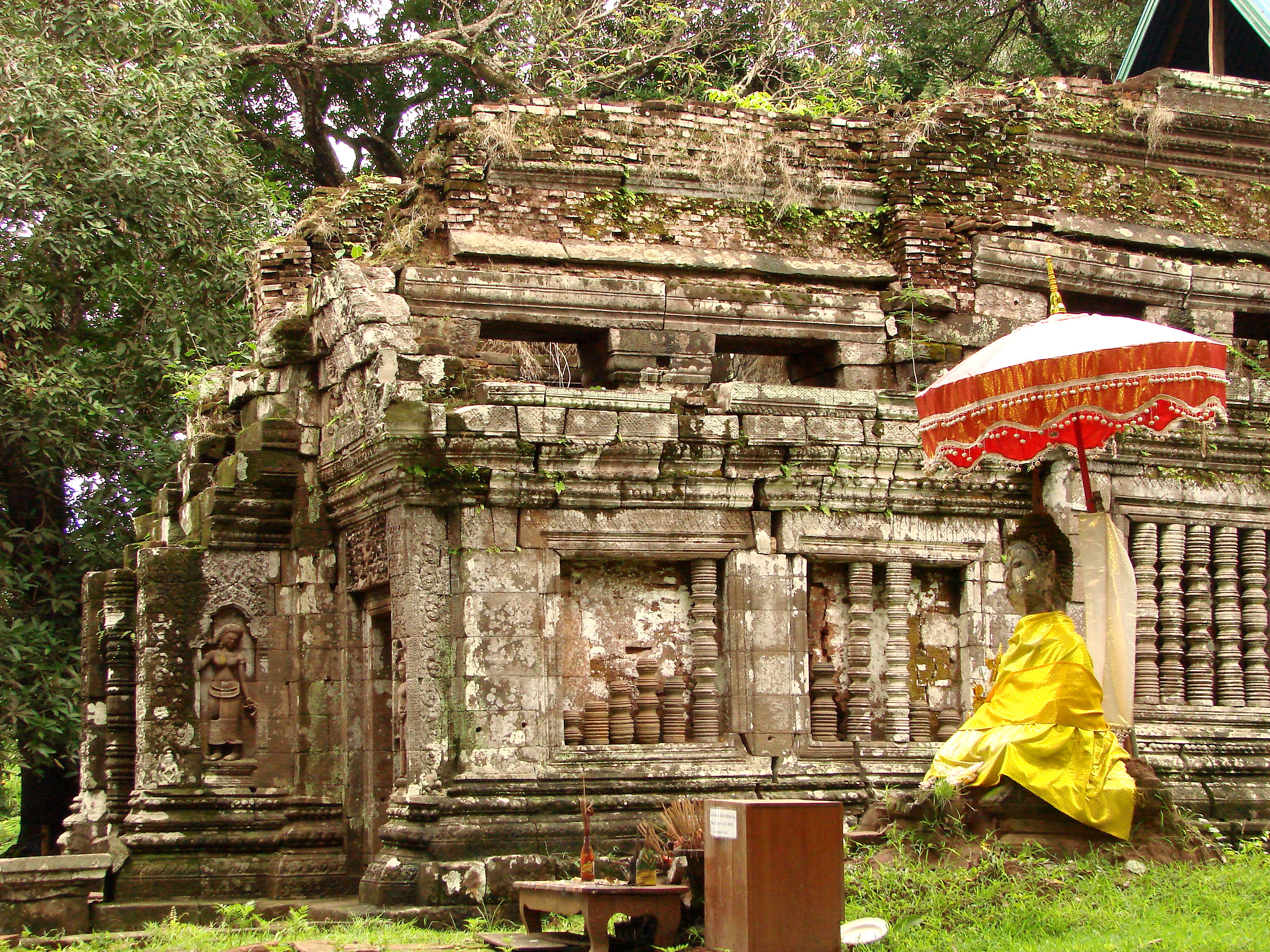 Wat Phu Champasak, Champasak Province, southern Laos. June 2009.